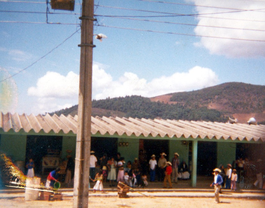 Ayutla Mixe oaxaca 1980